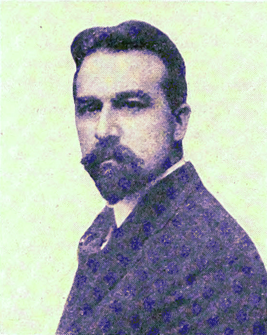 Holyoke Street Railway and contributing to the process's development under the employ of Hans Goldschmidt.]